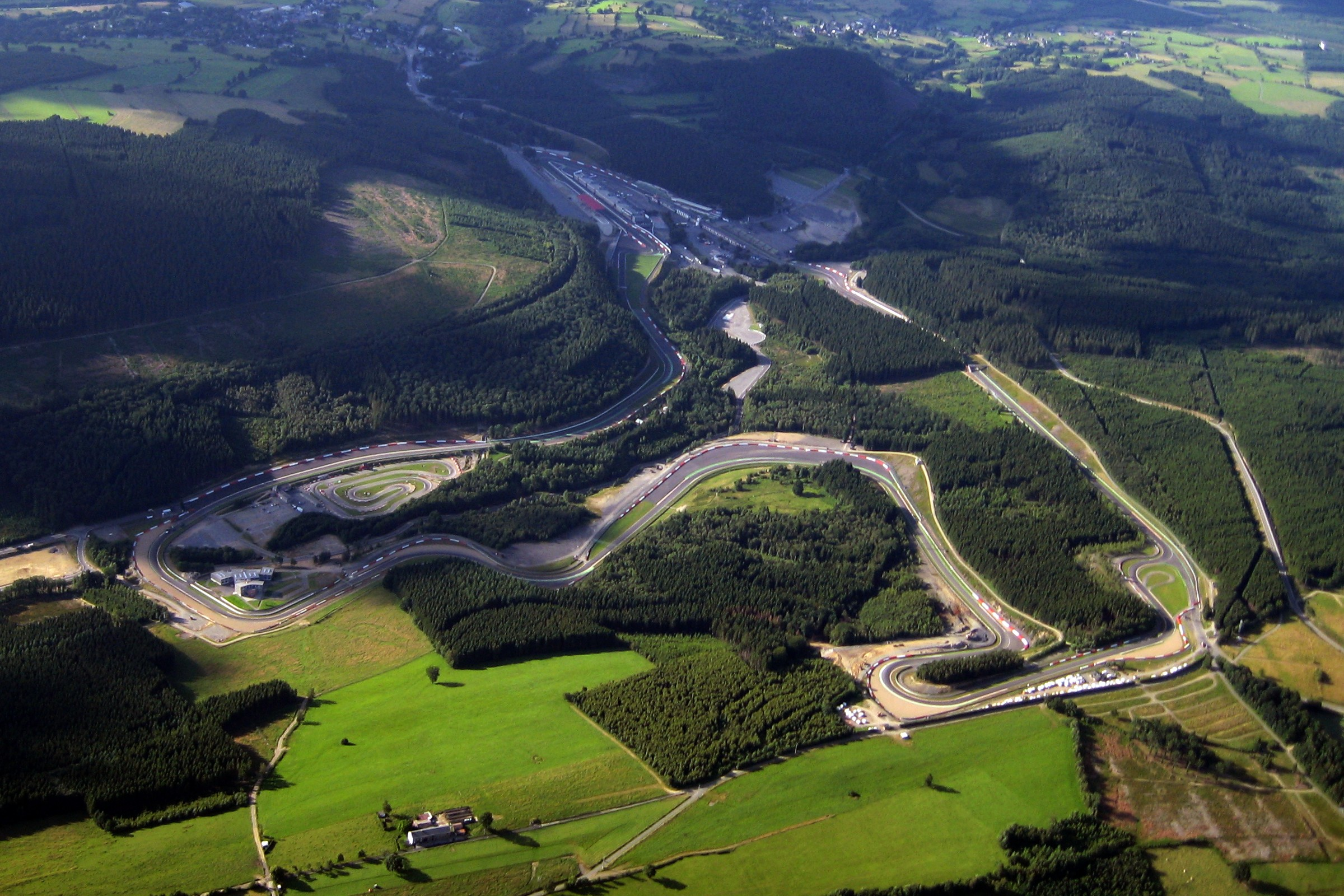 Belgian GP track taken during paragliding XC flight.